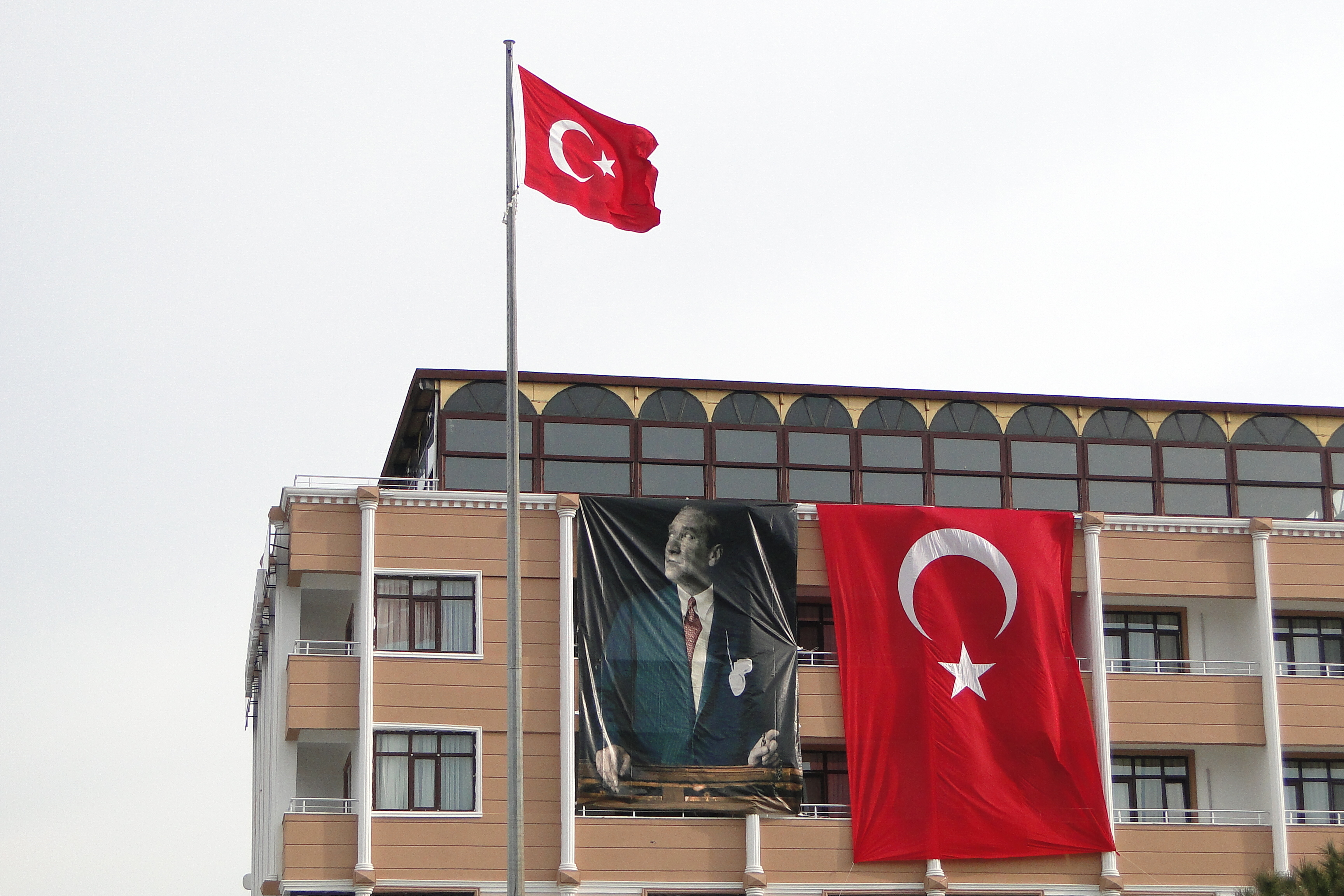 Facade with Turkish Flags and Ataturk Banner - Eceabat - Dardanelles - Turkey